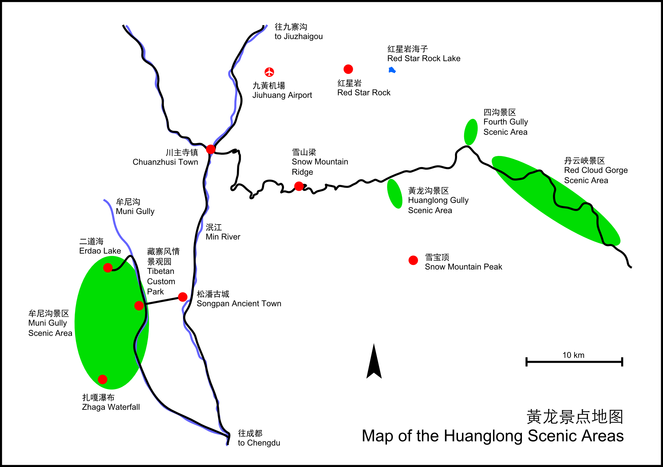 Huanglong scenic areas